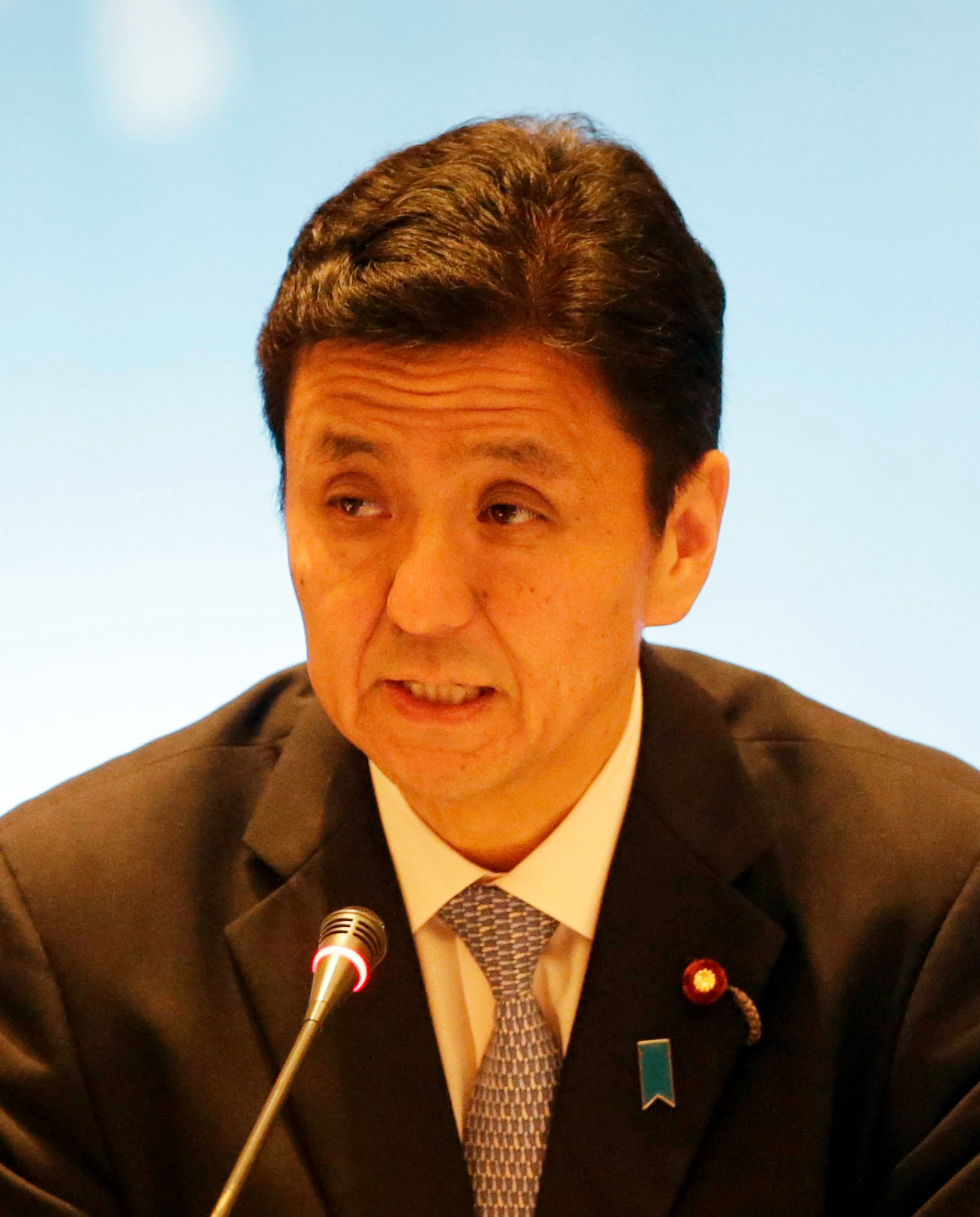 Nobuo Kishi, Senior Vice-Minister for Foreign Affairs, delivered his speech at the Regional Conference of the Comprehensive Nuclear-Test-Ban Treaty in Jakarta City, Jakarta Special Capital Region on May 19, 2014.